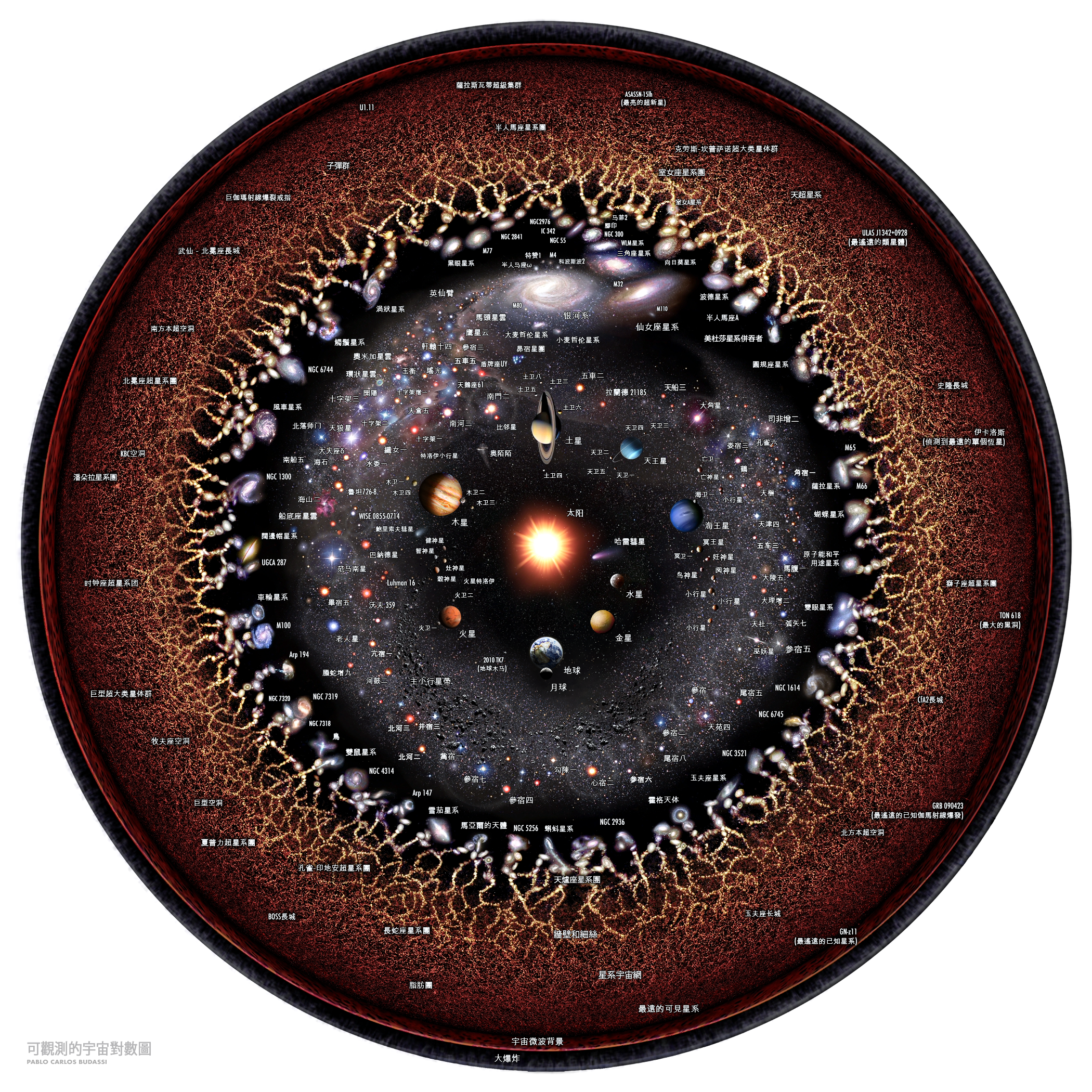 Logarithmic scale conception of the observable universe with the Solar System at the center, inner and outer planets, Kuiper belt objects, Alpha Centauri, Perseus Arm, Milky Way galaxy, Andromeda galaxy, nearby galaxies, Cosmic Web, Cosmic microwave radiation and Big Bang's invisible plasma on the edge. Distance from Earth increases exponentially from the center to the edge. Celestial bodies are shown enlarged to appreciate their shapes.